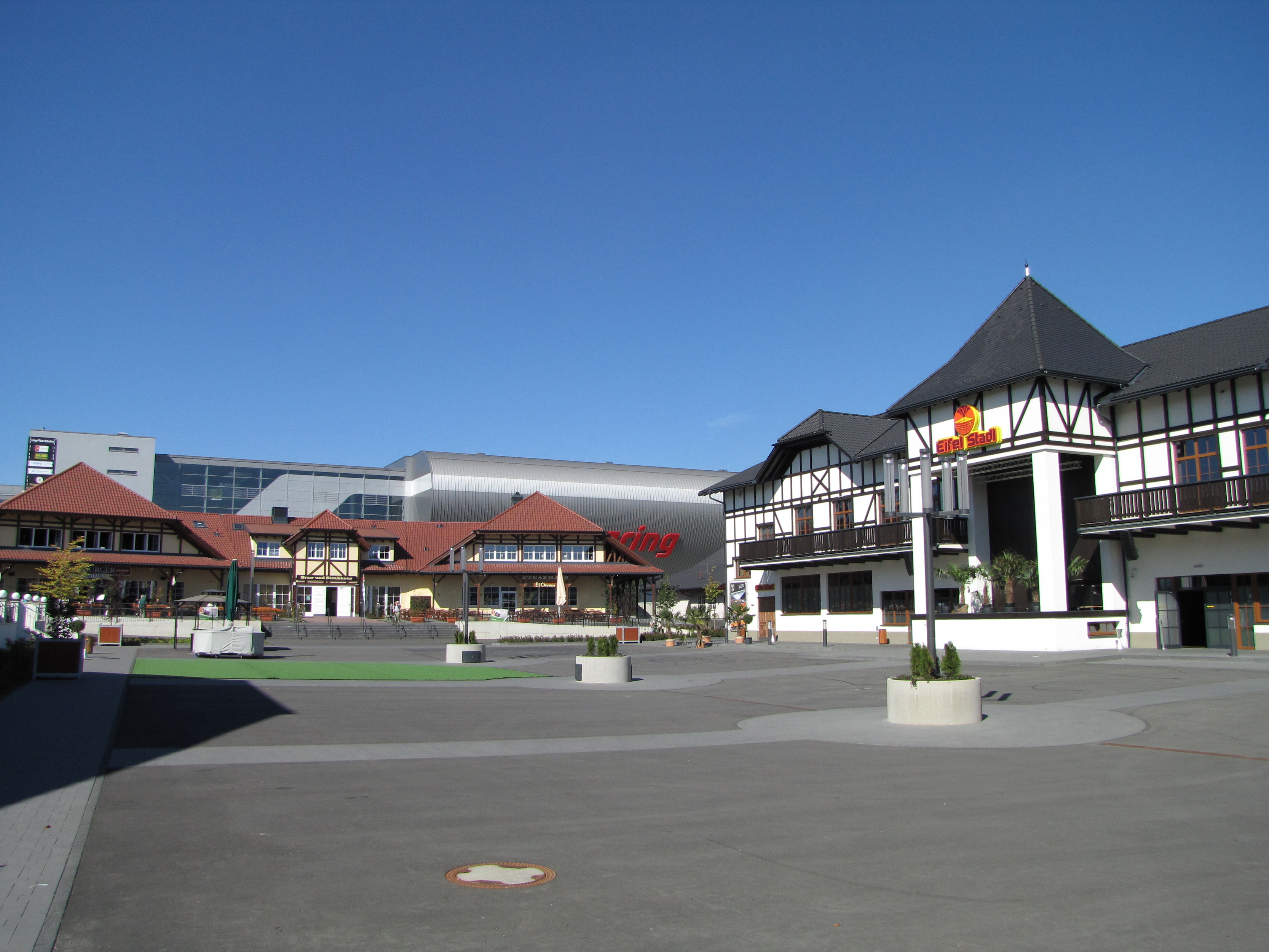 Eifeldorf Grüne Hölle at Nürburgring